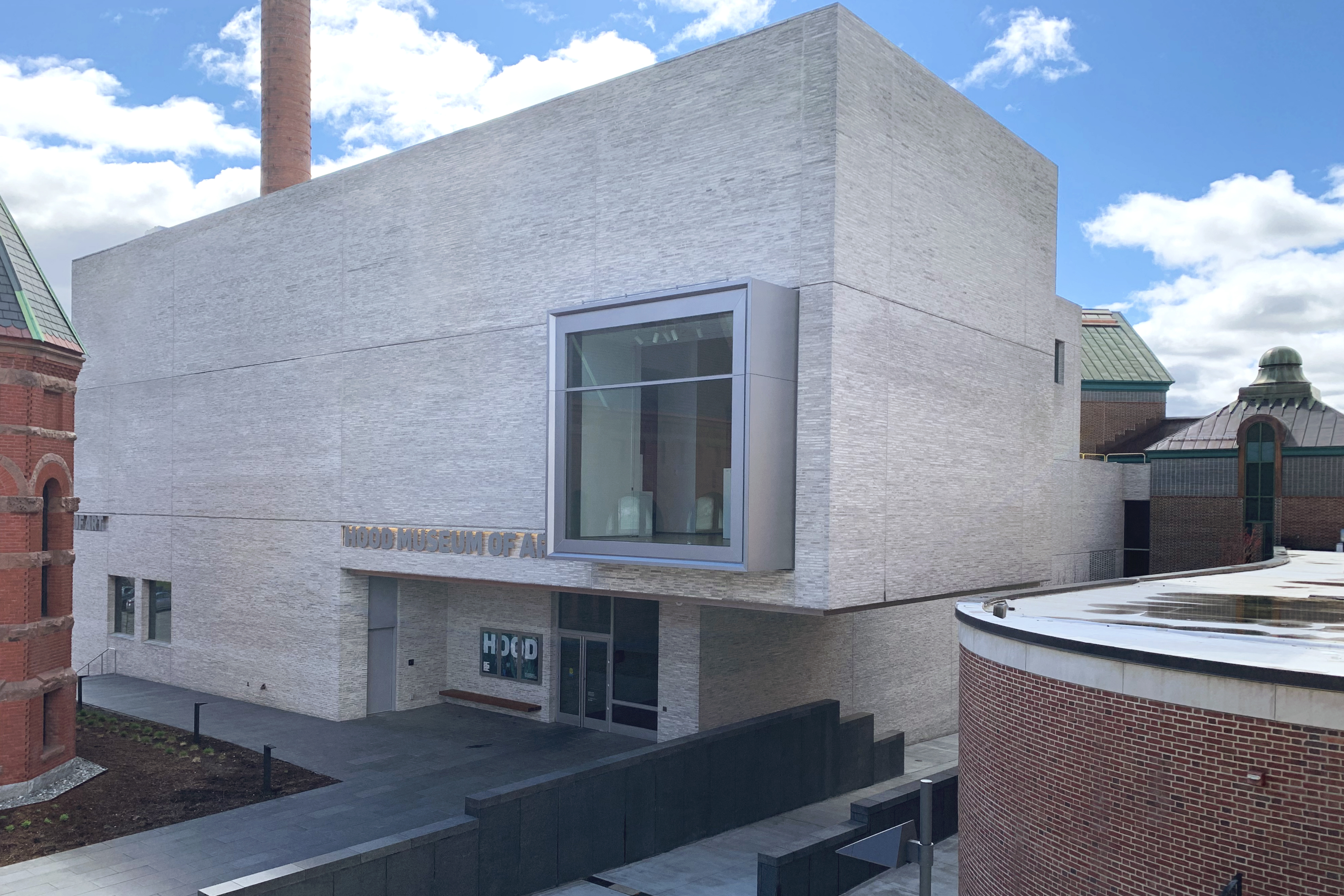 The Hood Museum of Art's north facade entrance designed by Tod Williams and Billie Tsien Architects. Photo by Alison Palizzolo.